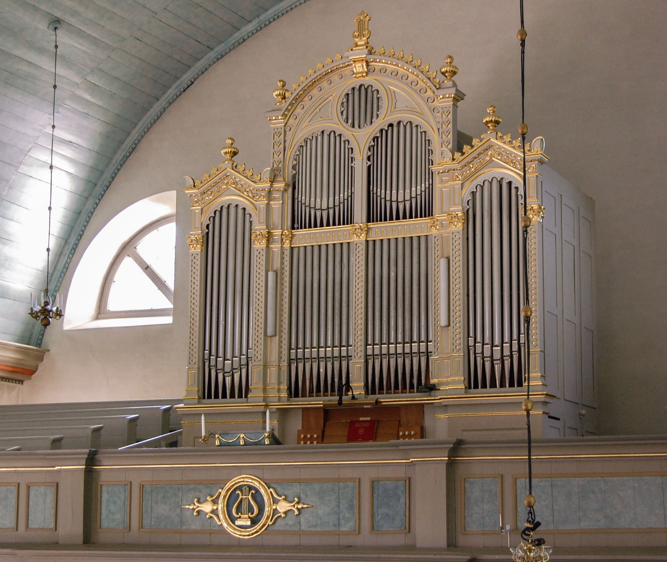 Algutsrum Church.Organ